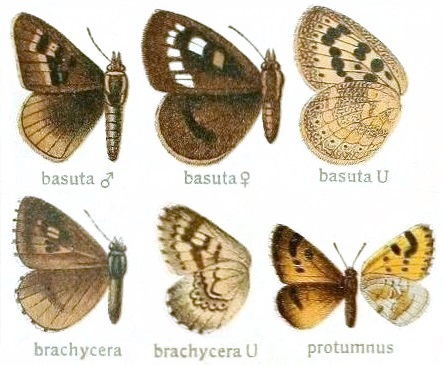 SeitzFaunaAfricanaXIIITaf71